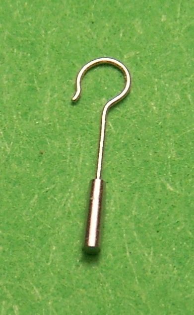 Stapesprothese Titan